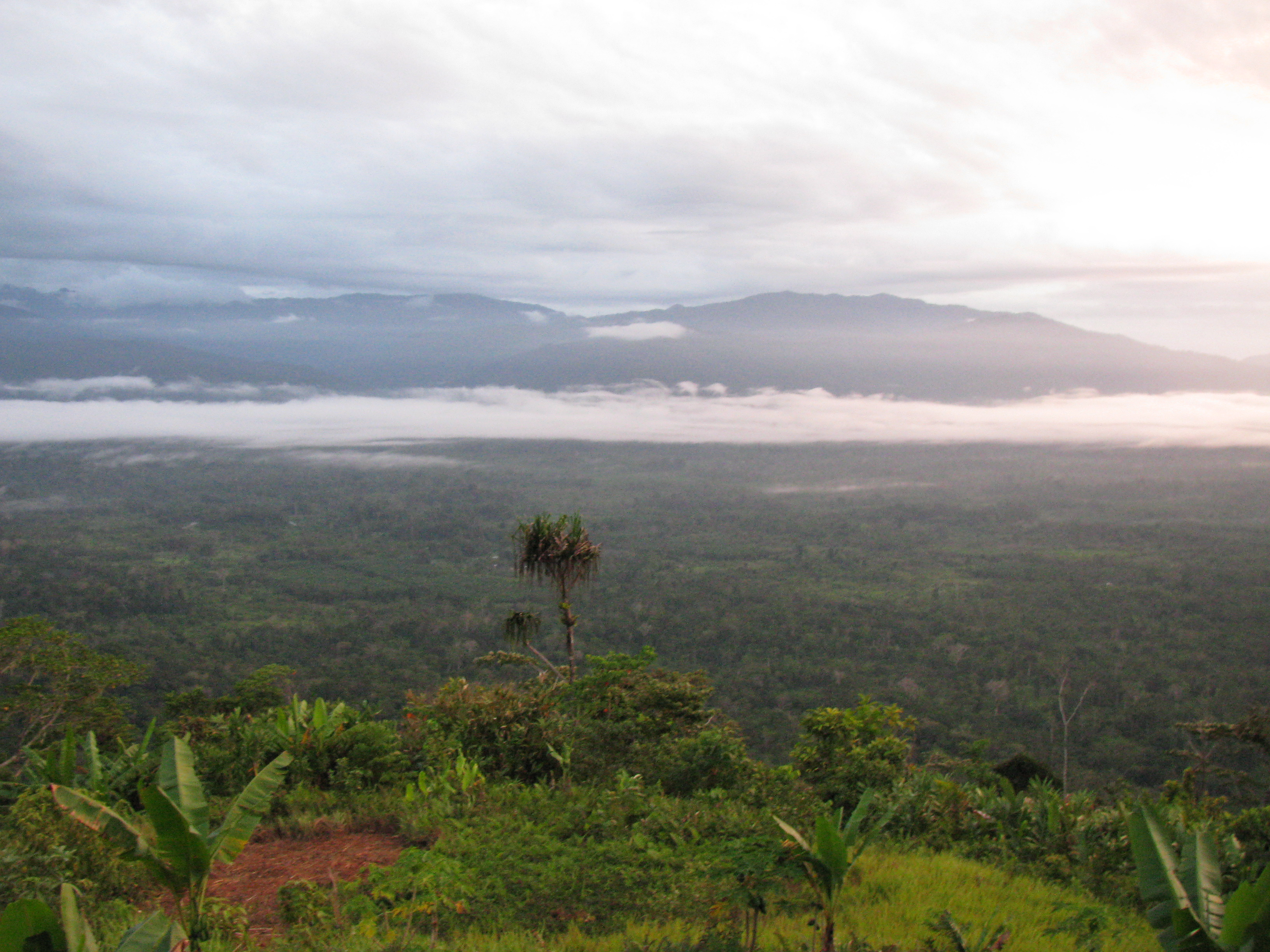 Early morning at Alola, Kokoda Track, Papua New Guinea. Photographed on Day 3 of Trek - 8 September 2008.